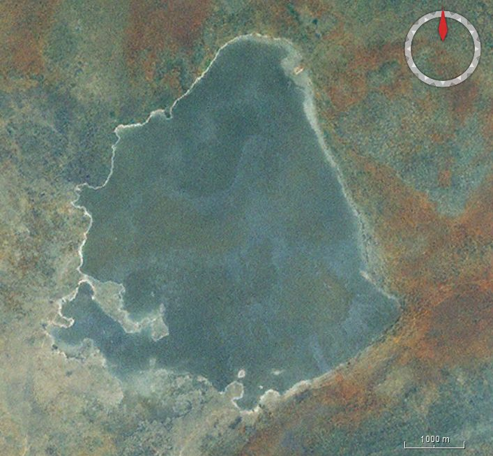 lake Amubussel